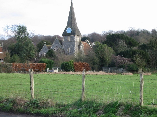 Bridge church